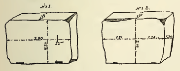 Pyramid of Baka